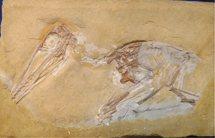 Holotype specimen of Pterodactyls kochi (BSP AS xix).